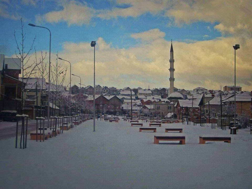 Ky park gjendet ne Qenarqeshme, Gjilan